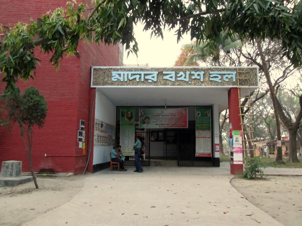 Entrance of Madar Bakhs Hall, University of Rajshahi.